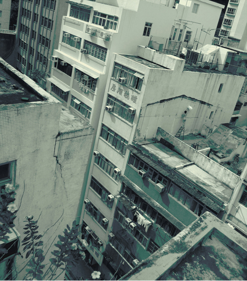 Photography at Wan Chai, HK